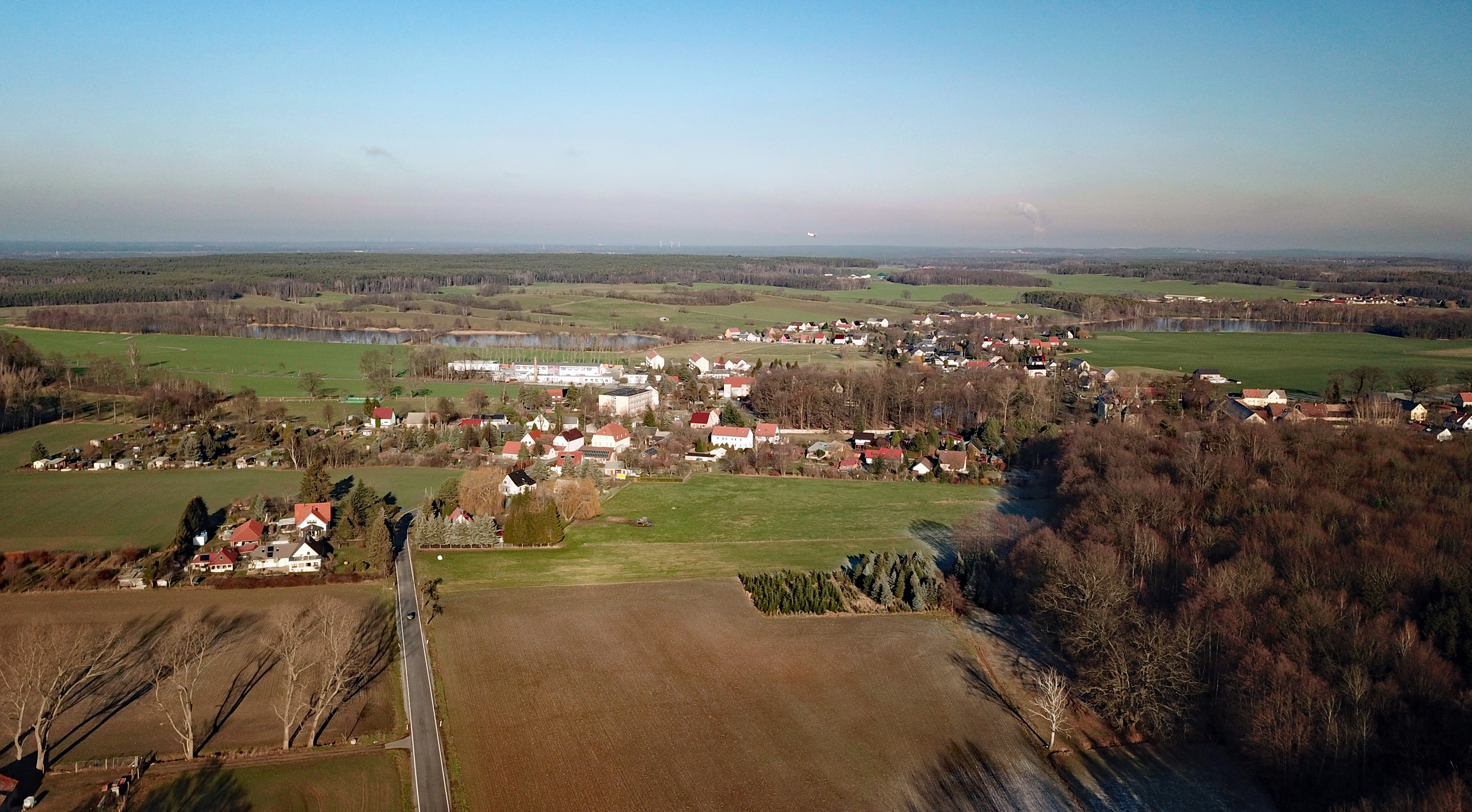 Brauna (Kamenz, Saxony, Germany)